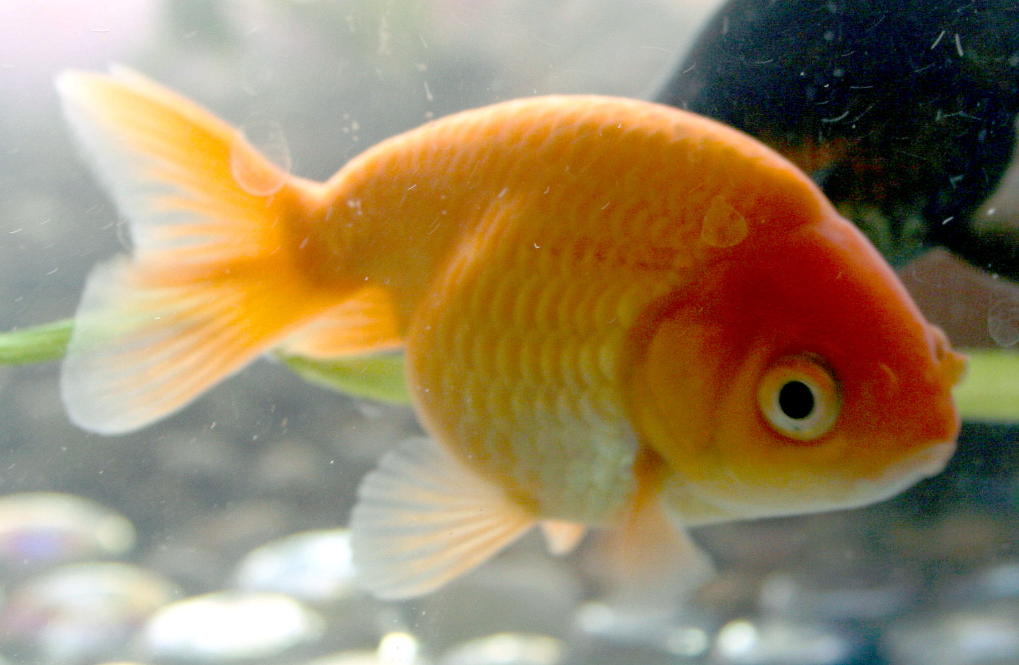 Ranchu goldfish before wen.